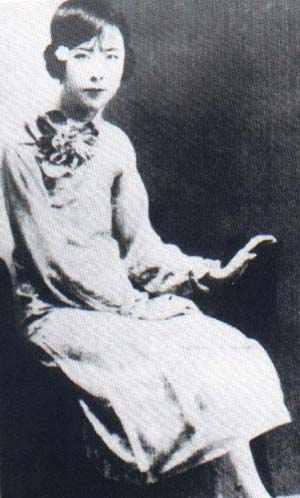 Early photograph of Fengzhi Yu.